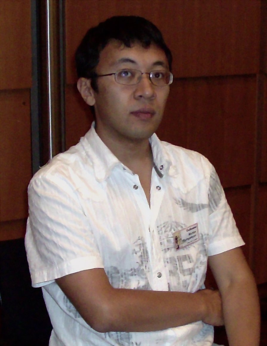 Murtas Kazhgaleyev, chess grandmaster from Kazakhstan